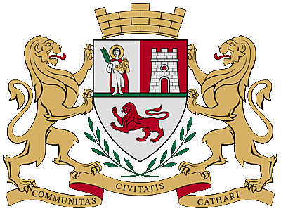 coat of arms of the city of Kotor, Montenegro, officially adopted on 16 February 2009, author Srđan Marlović.